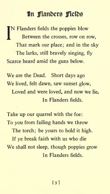 Typeset version of "In Flanders Fields" from In Flanders Fields and other poems